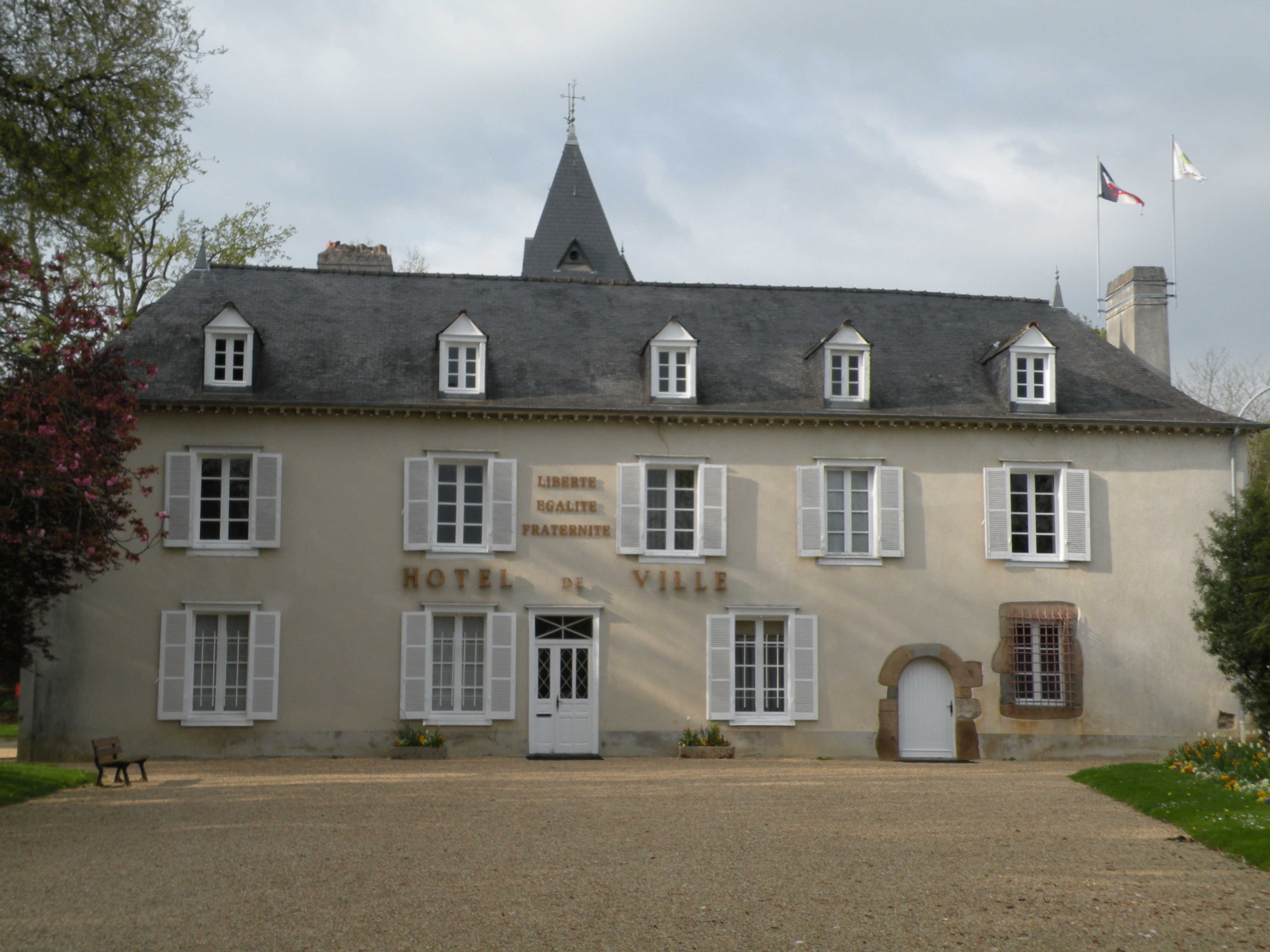 Town hall of Cesson-Sévigné. This building is a manor built in XVIth century.